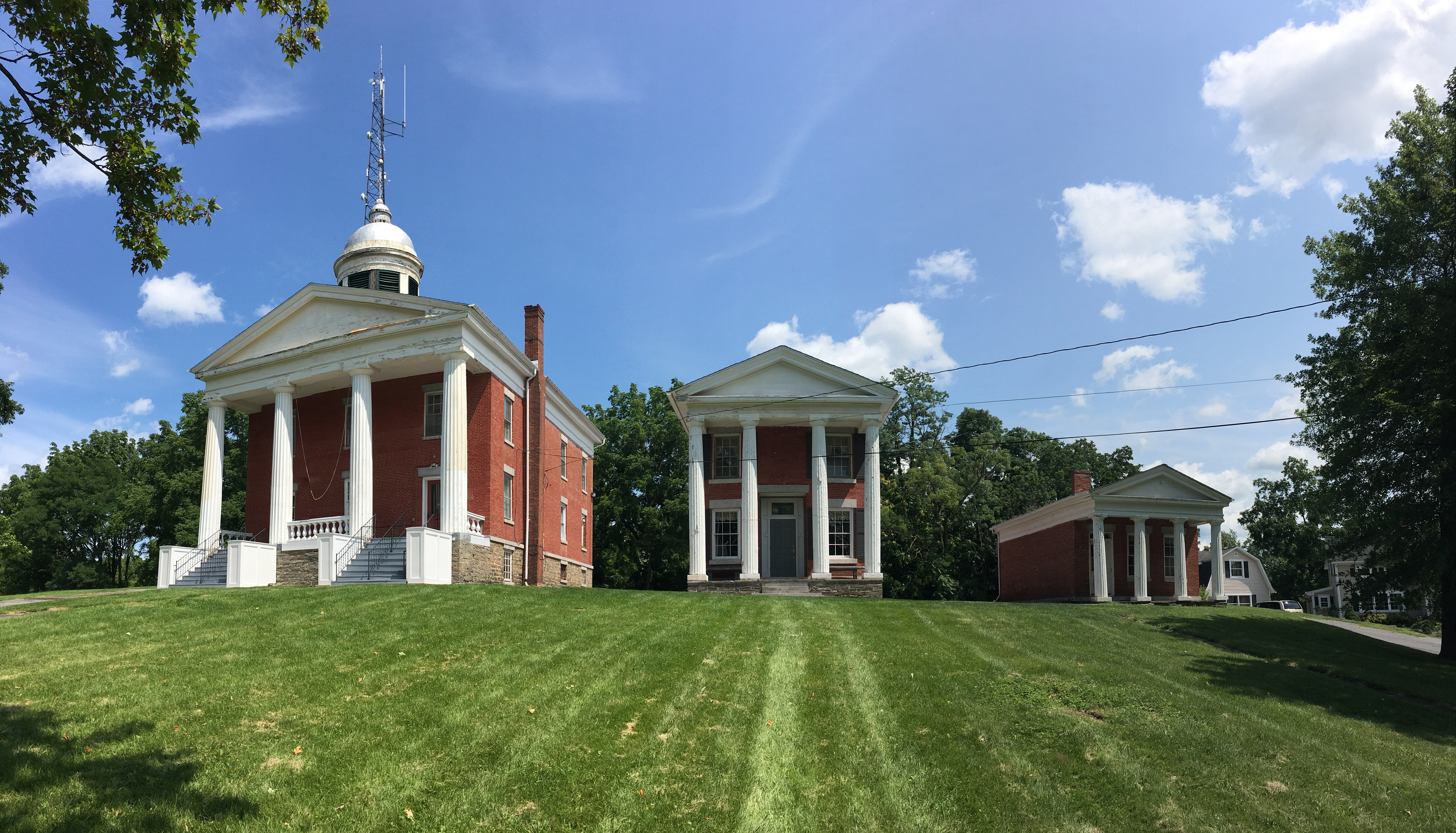 The Seneca County Courthouse Complex at Ovid, colloquially known as 'The Three Bears', is located in Ovid, NY. Photographed in August 2017.